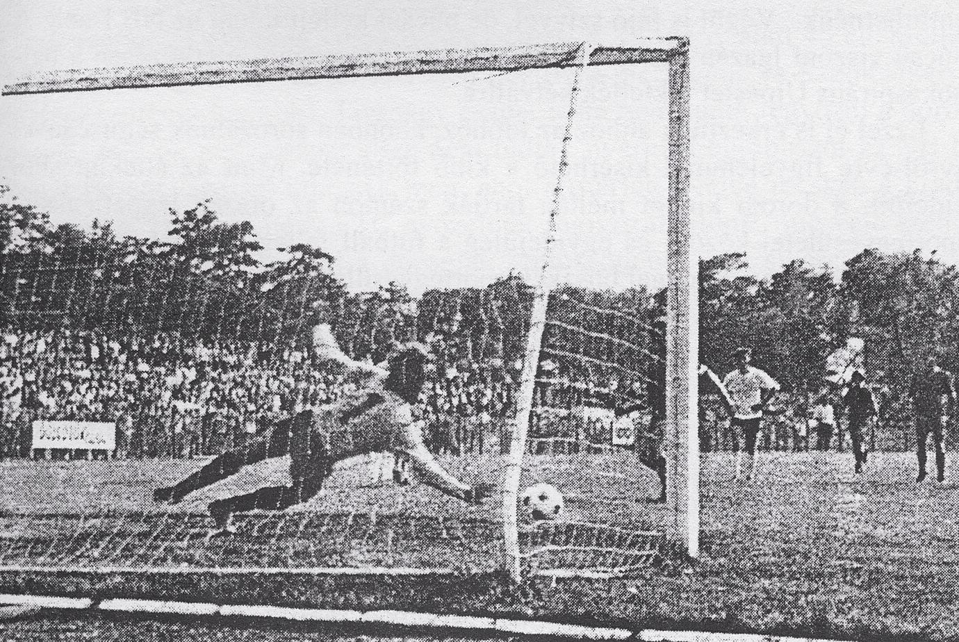 First class football match in stadium of Dorog